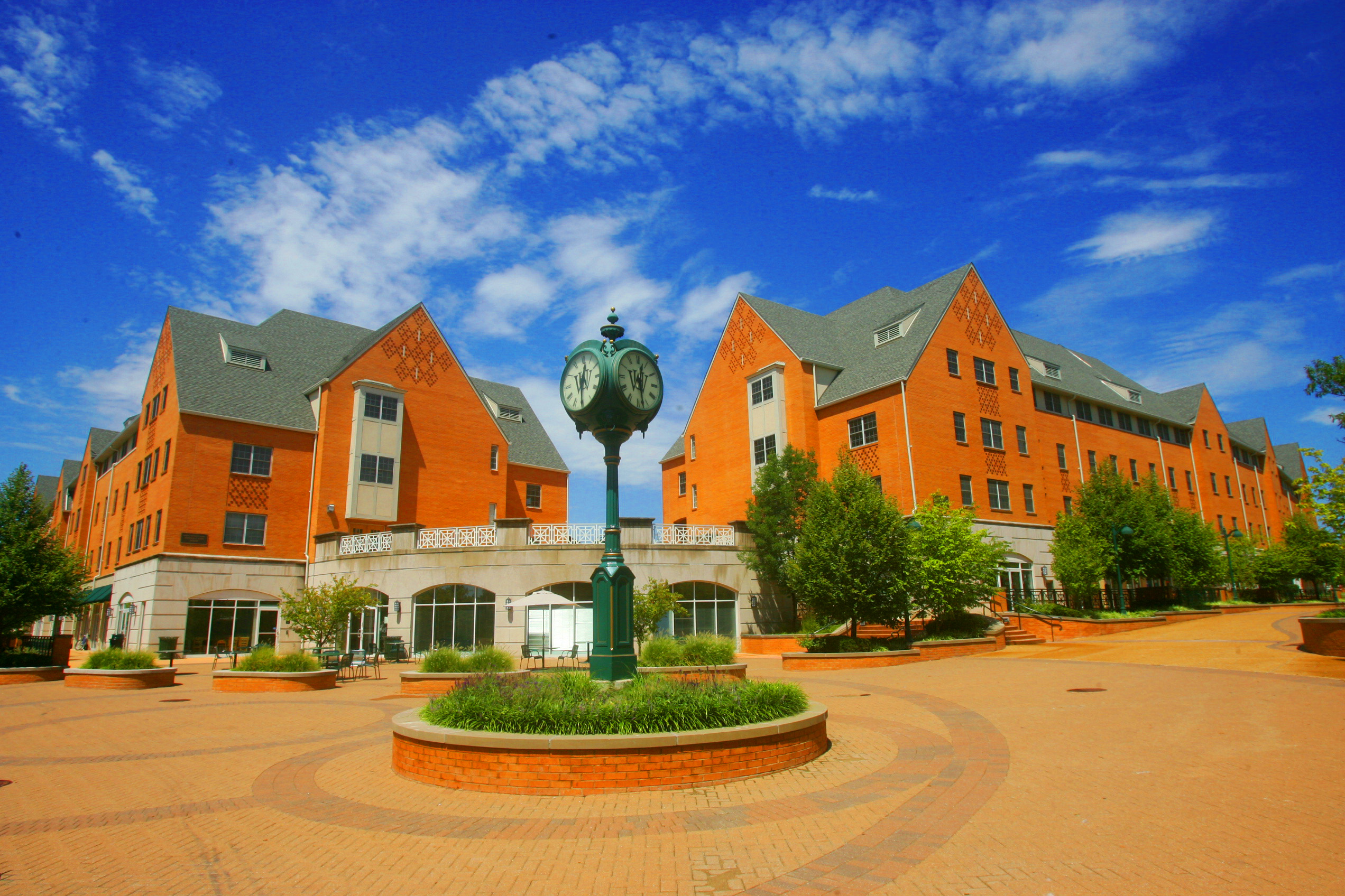 South 40 Residential Colleges - Lien on the left and Gregg on the right